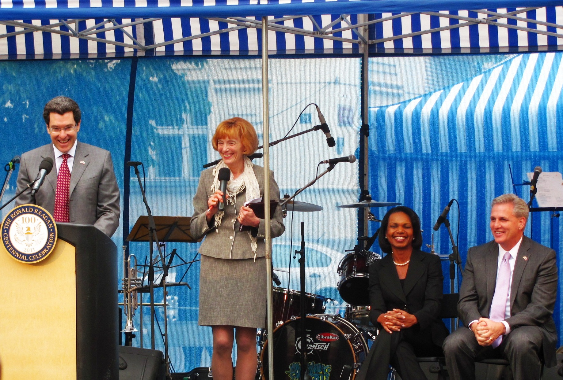 from left: Norman L.Eisen, U.S.Ambassador in the Czech Rep.; interpreter; Condoleezza Rice, Fmr.Secretary of State; Kevin McCarthy, U.S.Congressman at Ronald Reagan Centennial Celebration in Prague (2011)